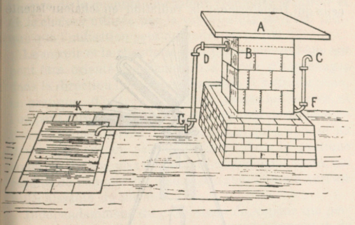 The solar pump of Deliancourt following a thermodynamic cycle